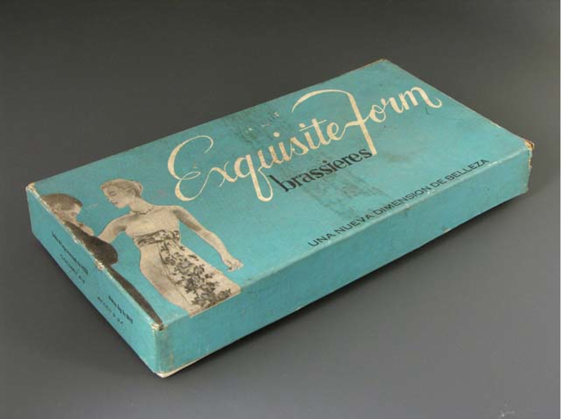 Box fro Exquisite form bras from the second half of the 20th century.